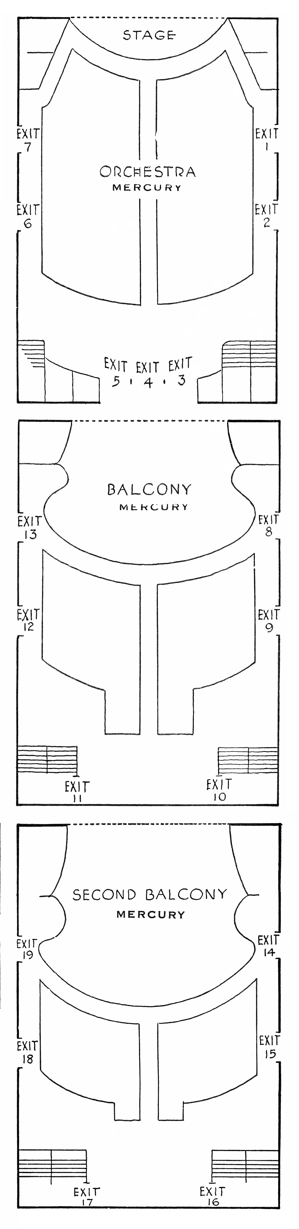 Seating diagrams for the Mercury Theatre (formerly the Comedy Theatre), 110 West 41st Street, New York City